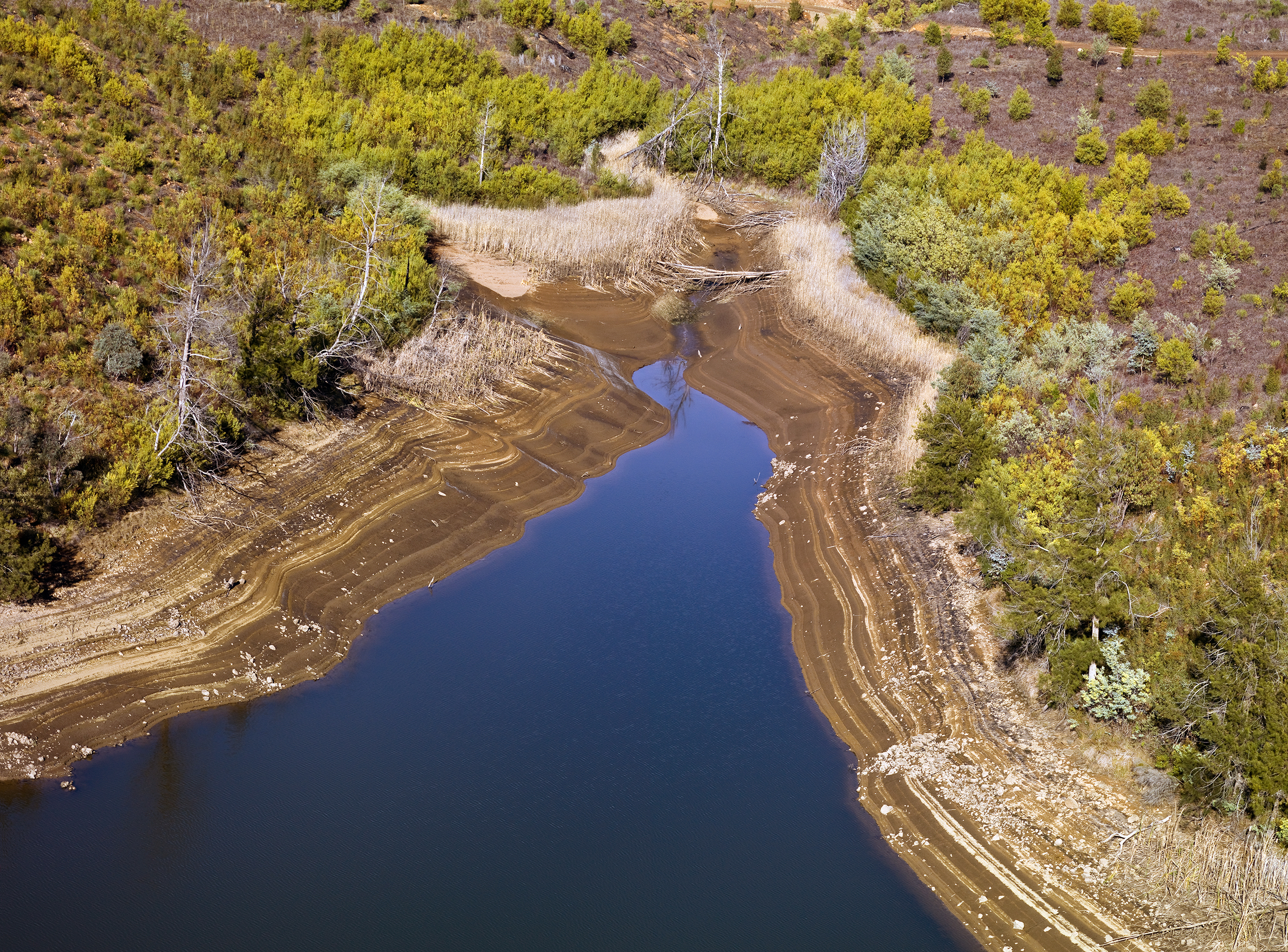 Aerial view of the Cotter Dam showing low water level, near Canberra, ACT